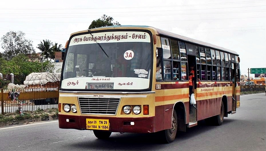 Image of 2013 batch rebuild city bus